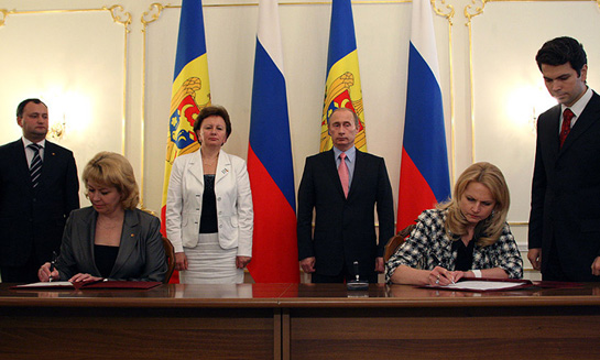 Russian Prime Minister Vladimir Putin met with Prime Minister of the Republic of Moldova Zinaida Greceanii